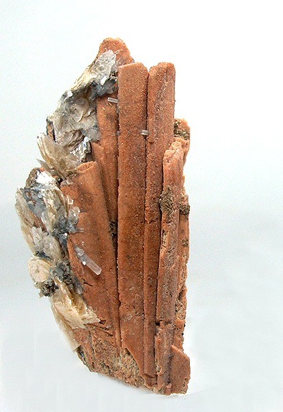 Rhodochrosite, Sérandite Locality: Poudrette quarry (Demix quarry; Uni-Mix quarry; Desourdy quarry), Mont Saint-Hilaire, Rouville RCM, Montérégie, Québec, Canada (Locality at ) A very elegant example of rhodochrosite having replaced serandite, a type of pseudomorph which can occur only at this one locality in the world. Most such specimens are, frankly, pretty horrible - they tend to be jumbly and incomplete, and somewhat unaesthetic overall, from this pocket. The fidelity of the replacement at the terminations is often poor. This is, for the size, one of the best I have seen in that it has some aesthetics and is not as corrroded as most seem to be. The association with bright polylithionite sets off the terminations nicely! 5 x 2.6 x 1.8 cm